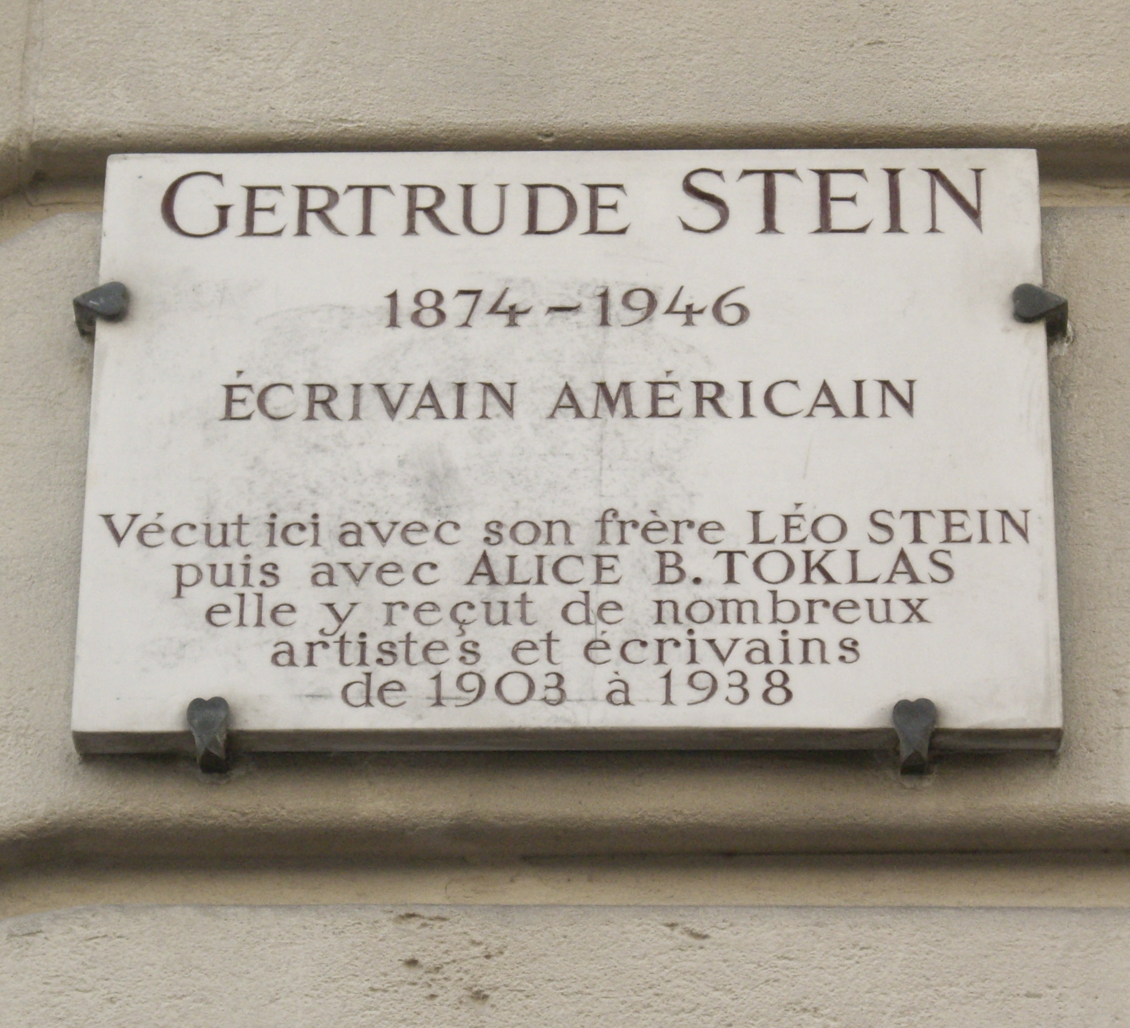 Plaque at No 27 Rue de Fleurus, Paris 6th, where Gertrude Stein (1874-1946) lived with her brother Leo Stein and later with Alice B. Toklas. Many artists and writers came here to visit her between 1903 and 1938.